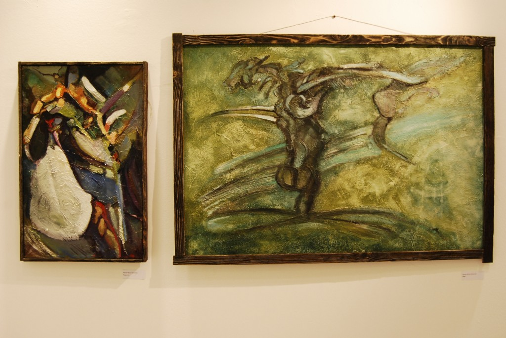 The works at the "salon jesienny"